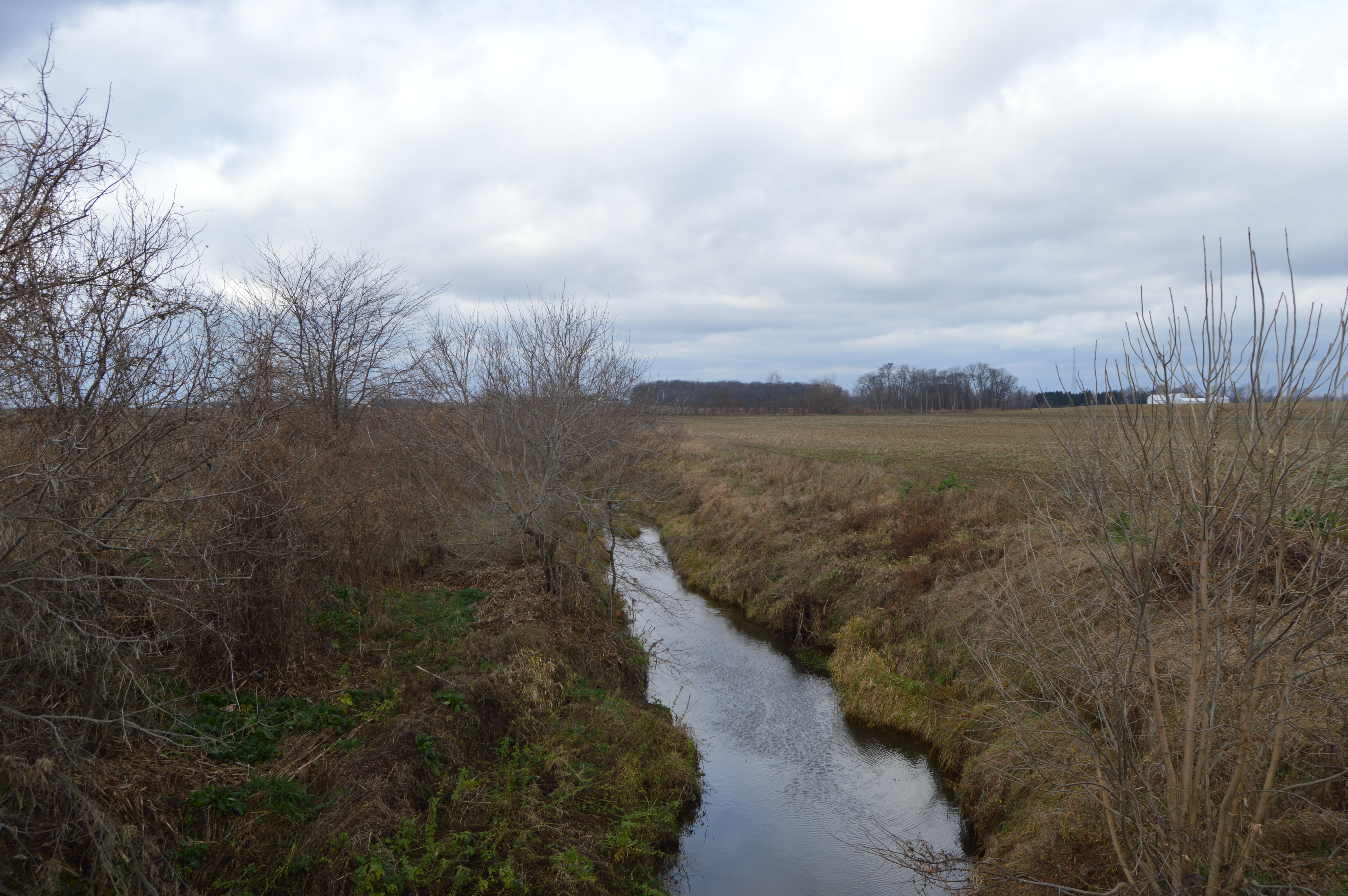 Looking westward (upstream) along Deer Creek from the Road 22 bridge east of Fayette in Gorham Township, Fulton County, Ohio, United States.